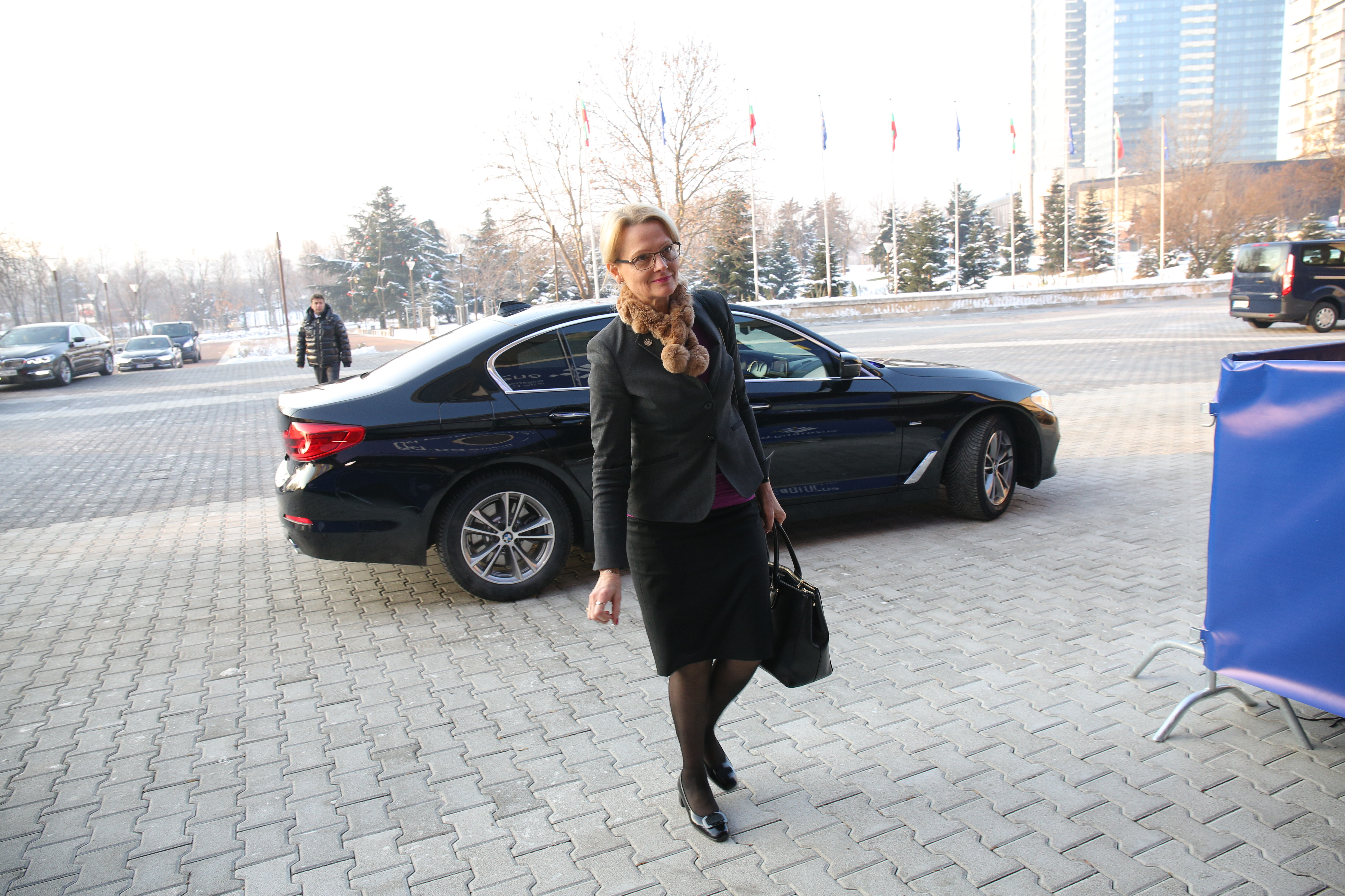 Heléne Fritzon, Minister for Migration and Deputy Minister for Justice of Sweden